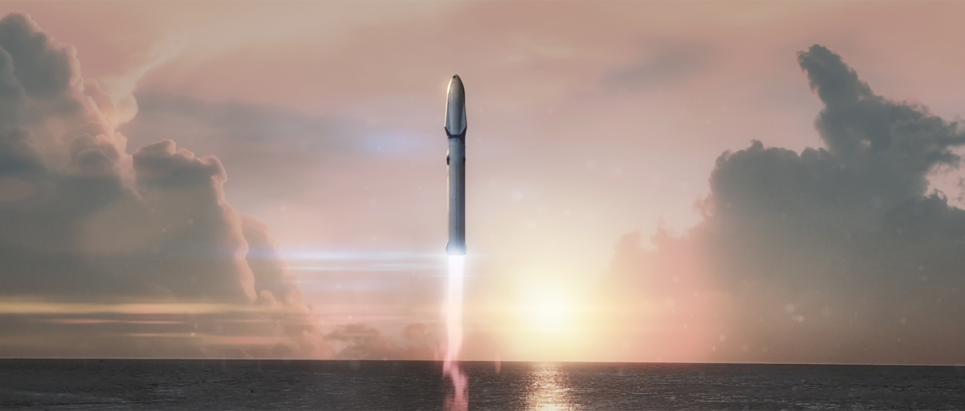 Interplanetary Transport System launch vehicle (ITS launch vehicle) ascending.